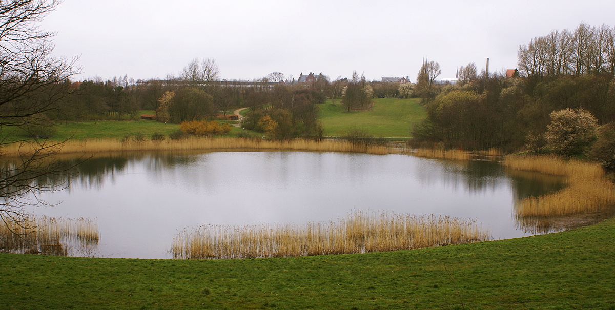 Roskilde Ring Park in Roskilde, Denmark, established in a former motorsport race track, named Roskilde Ring